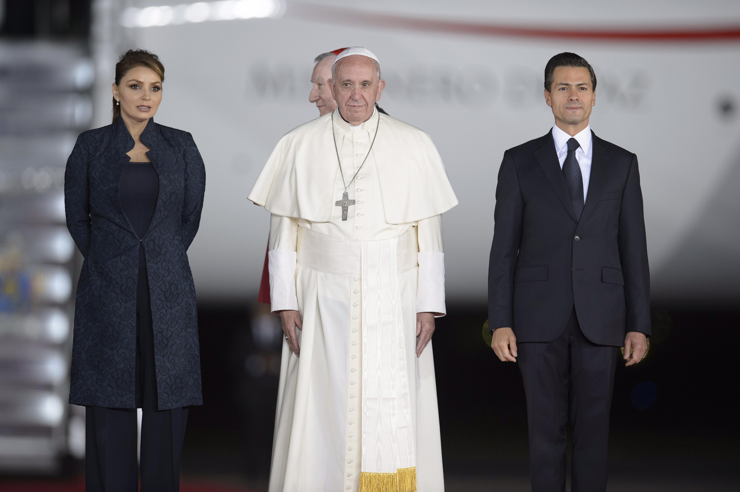 17 de Febrero del 2016